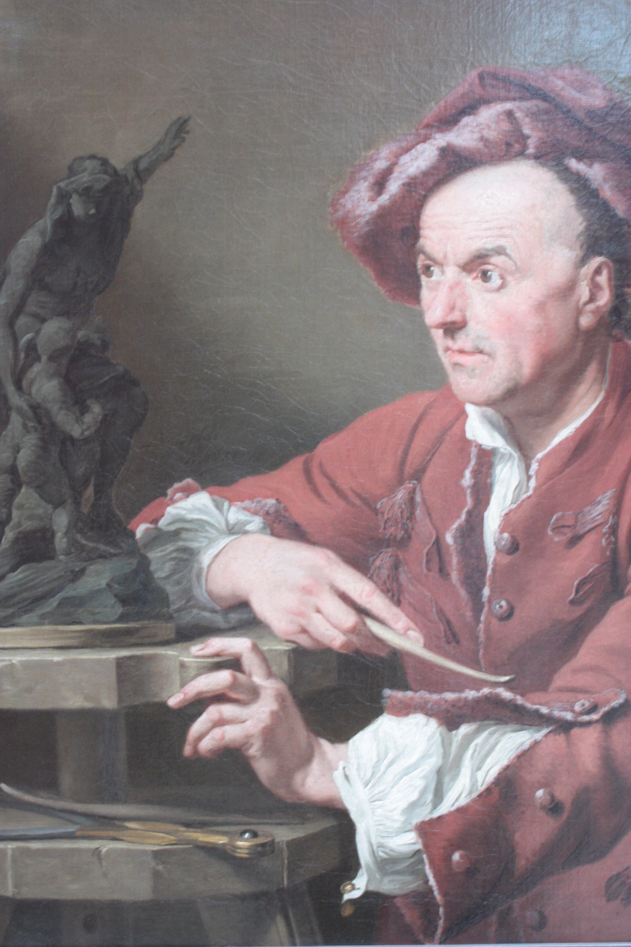 Roubillac by Andrea Soldi